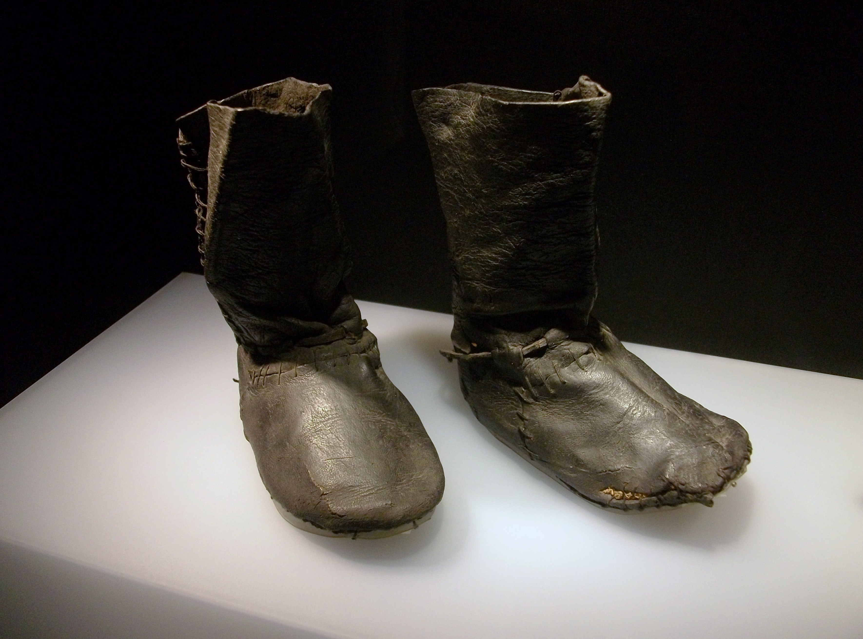 Children's boots, Pskov, 11th-12th century, leather, cut and stitched.